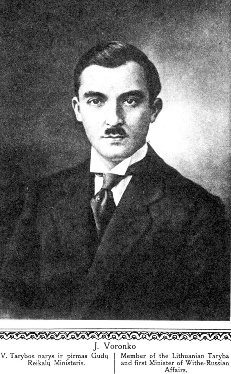 Juozapas Voronko, minister of Lithuania, bielorussian poet, journalist